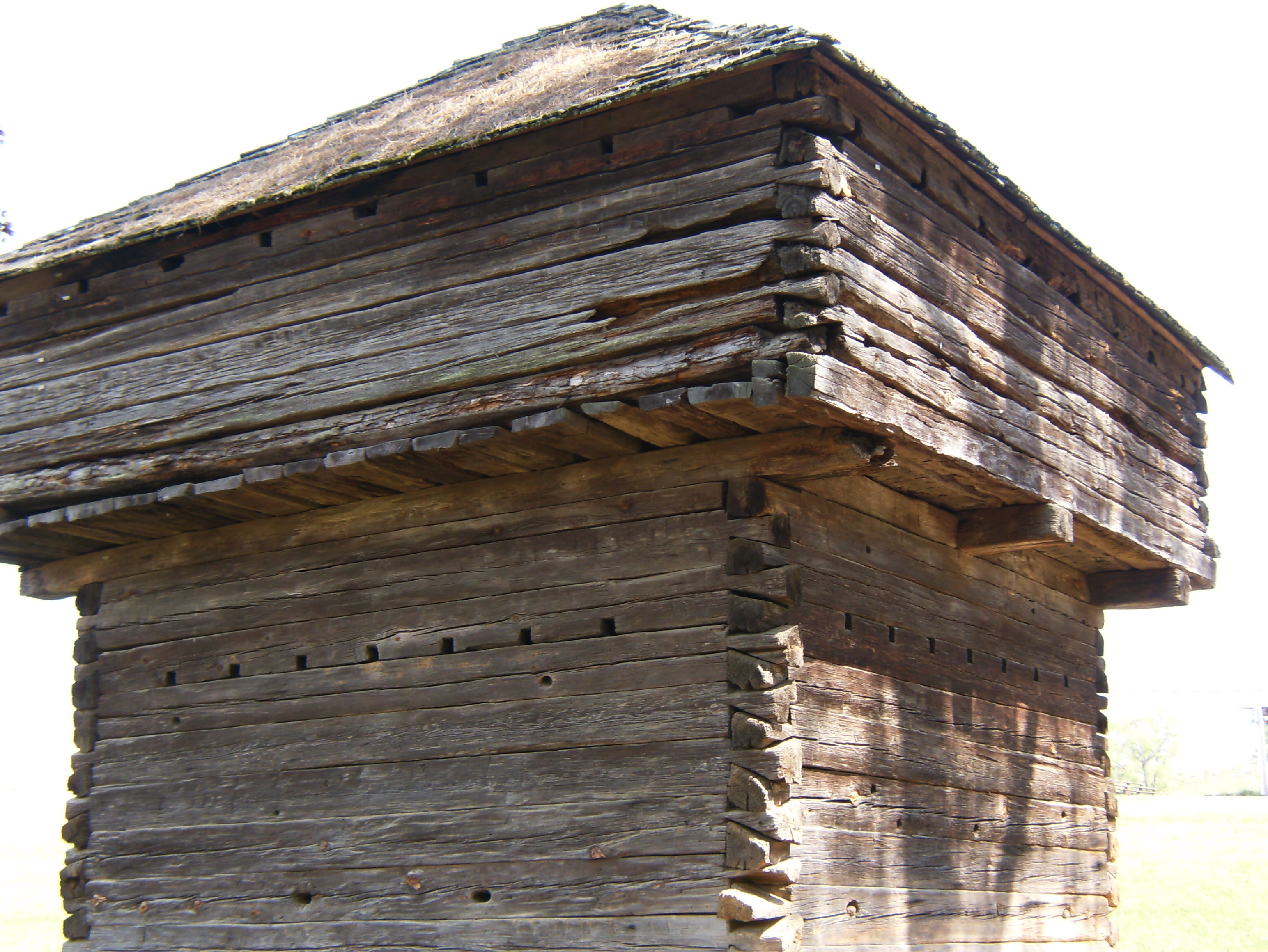 Fort Marr Blockhouse — near Benton, Tennessee. The last surviving remnant of the forts used to intern the Cherokee, in preparation for their forced removal west on the Trail of Tears in the 1830s.